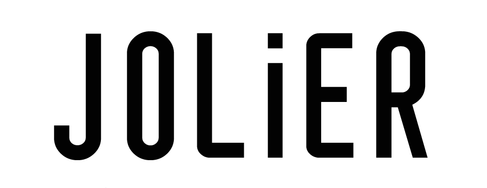 JOLIER logos.